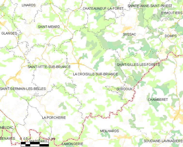 Map of French municipality La Croisille-sur-Briance